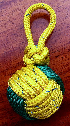 Key fob, small three strand monkey's fist.